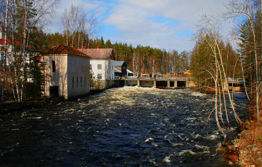 Voikoski rapids in Mäntyharju, Finland (bordering on Valkeala, Finland).